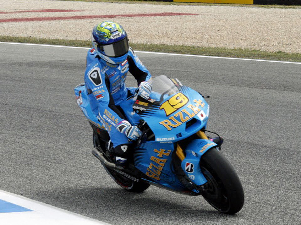 Alvaro Bautista 2011 Estoril